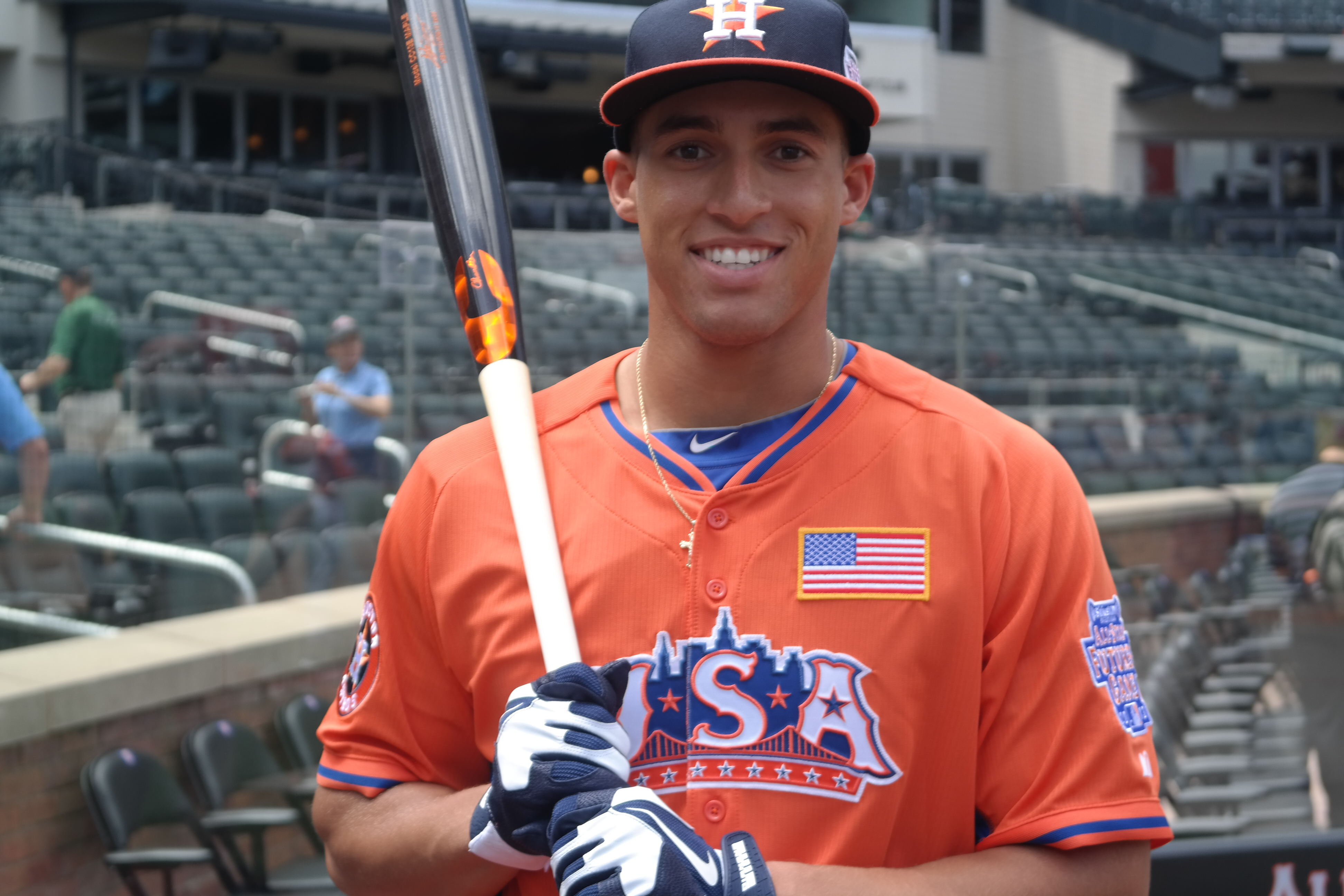 Astros prospect George Springer.